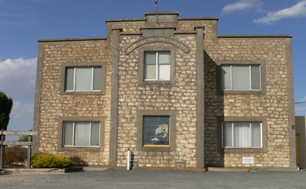 Coonalpyn Institute, Poyntz Terrace